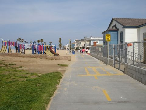 Walkway. Beachwalk between Newport El and the school's playground, facing toward Newport Pier, Newport Beach, California.